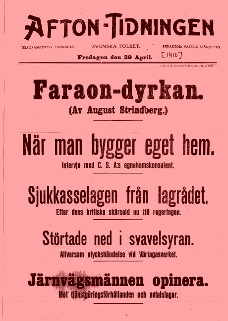 Ad for Swedish newspaper Afton-Tidningen, April 29 1910. August Strindberg's article "Faraondyrkan" (Worshipping the Pharao) ignited the Strindberg Feud.